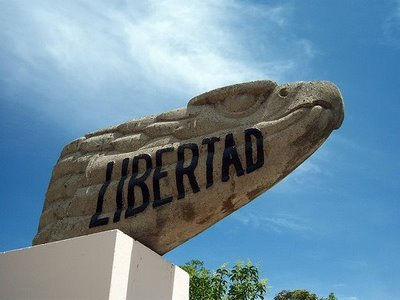 ruta de hidalgo ixtlán